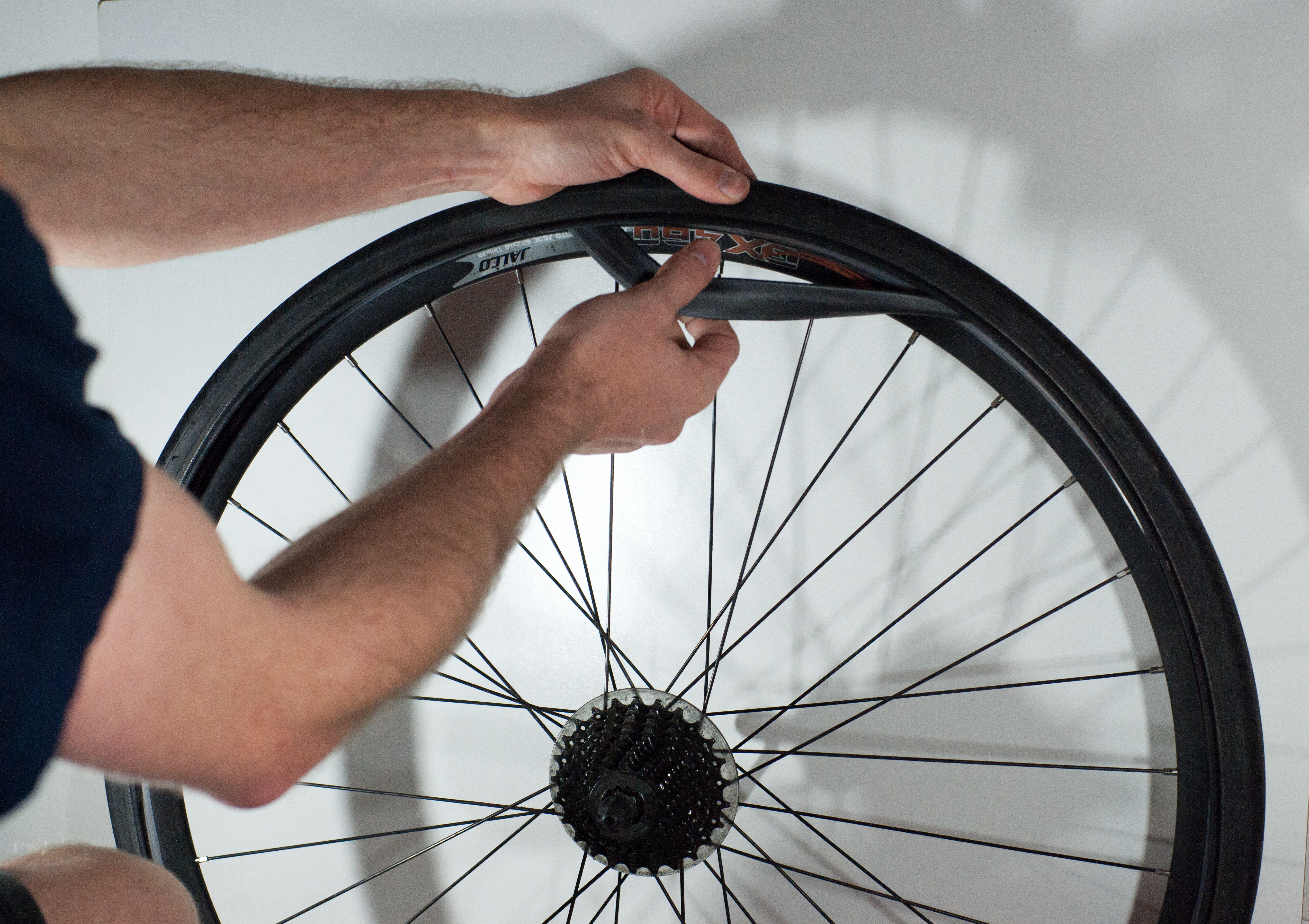 Changing an inner tube - Removing the tube